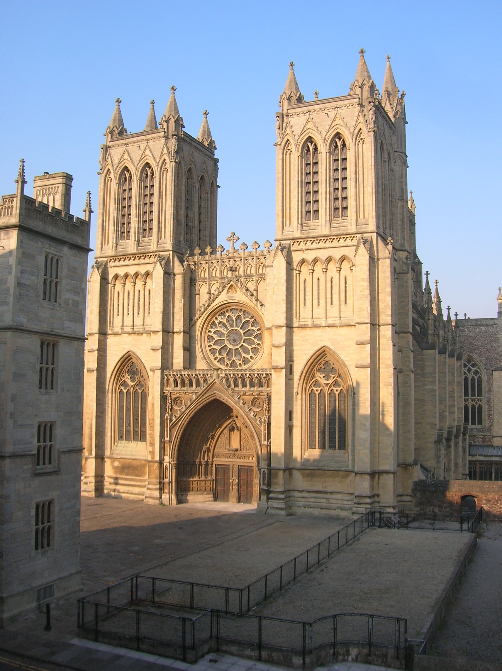 A less-familiar view of Bristol Cathedral, from the window of a staff toilet in the library.